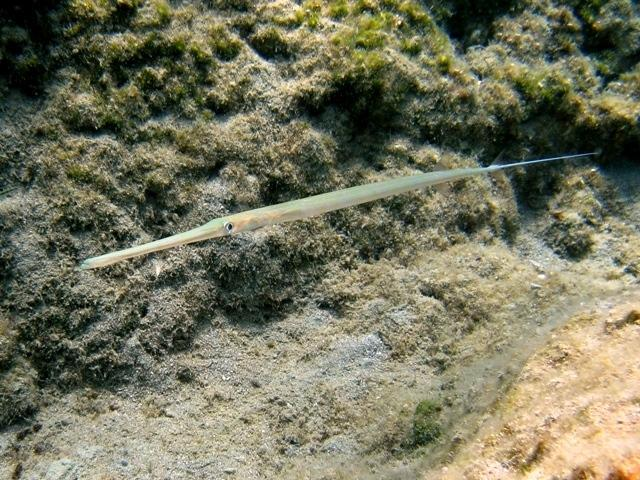 Fistularia commersonii potographed in Karpathos, Greece.